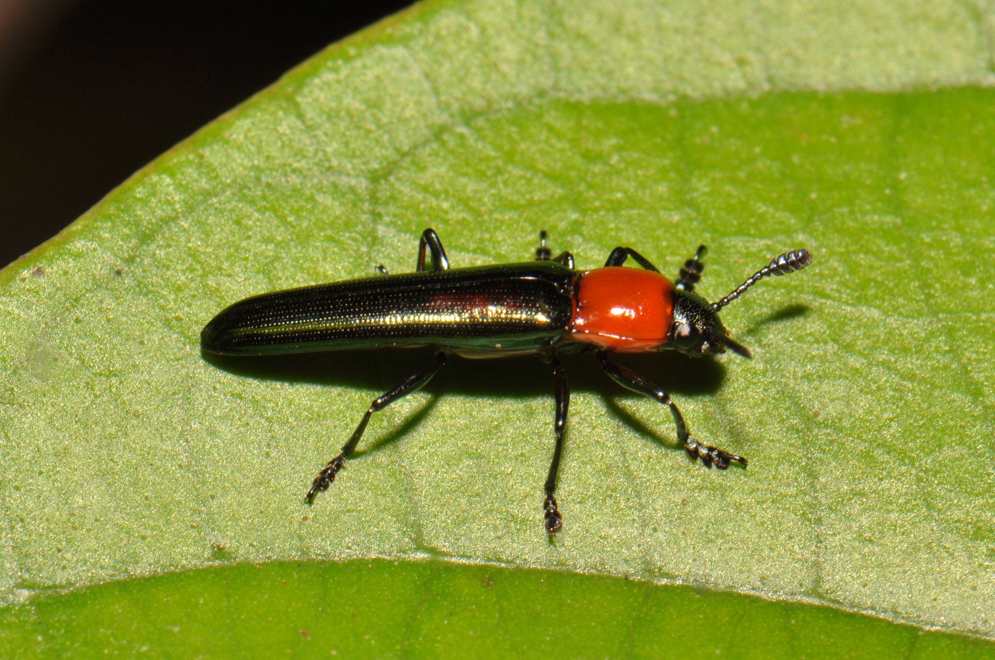 Thanks to davidgerardball for ID